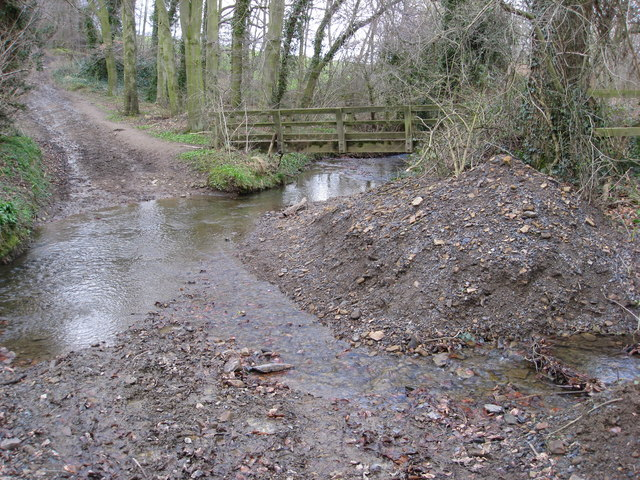 Footbridge over The Moss